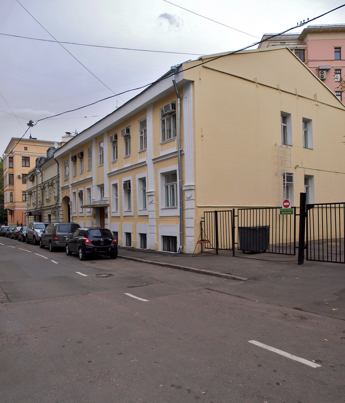 4th Rostovsky Lane, Moscow.